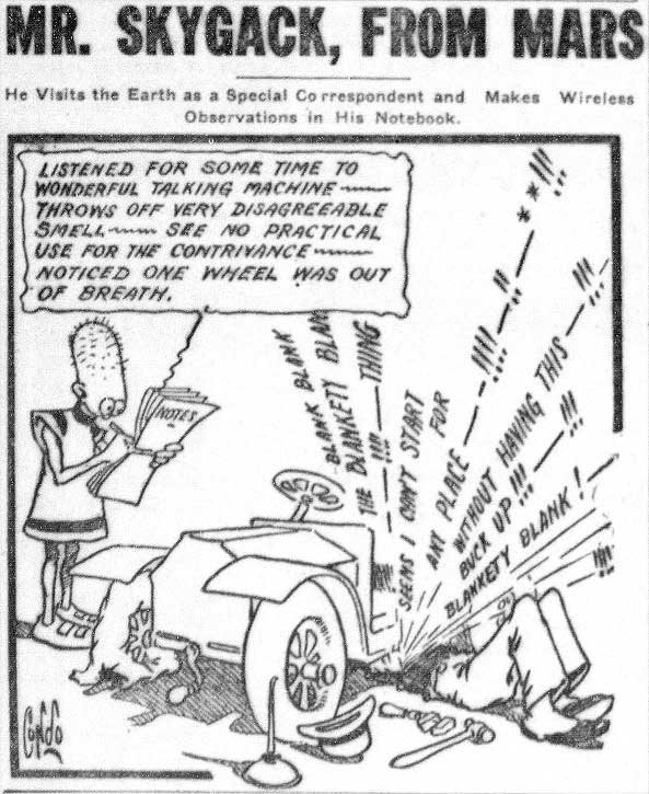 Mr. Skygack watches a man trying to fix his car. The text in this image should be transcribed and included in the description on this page. See also Transcription . The Google OCR tool may be of use in transcribing images.